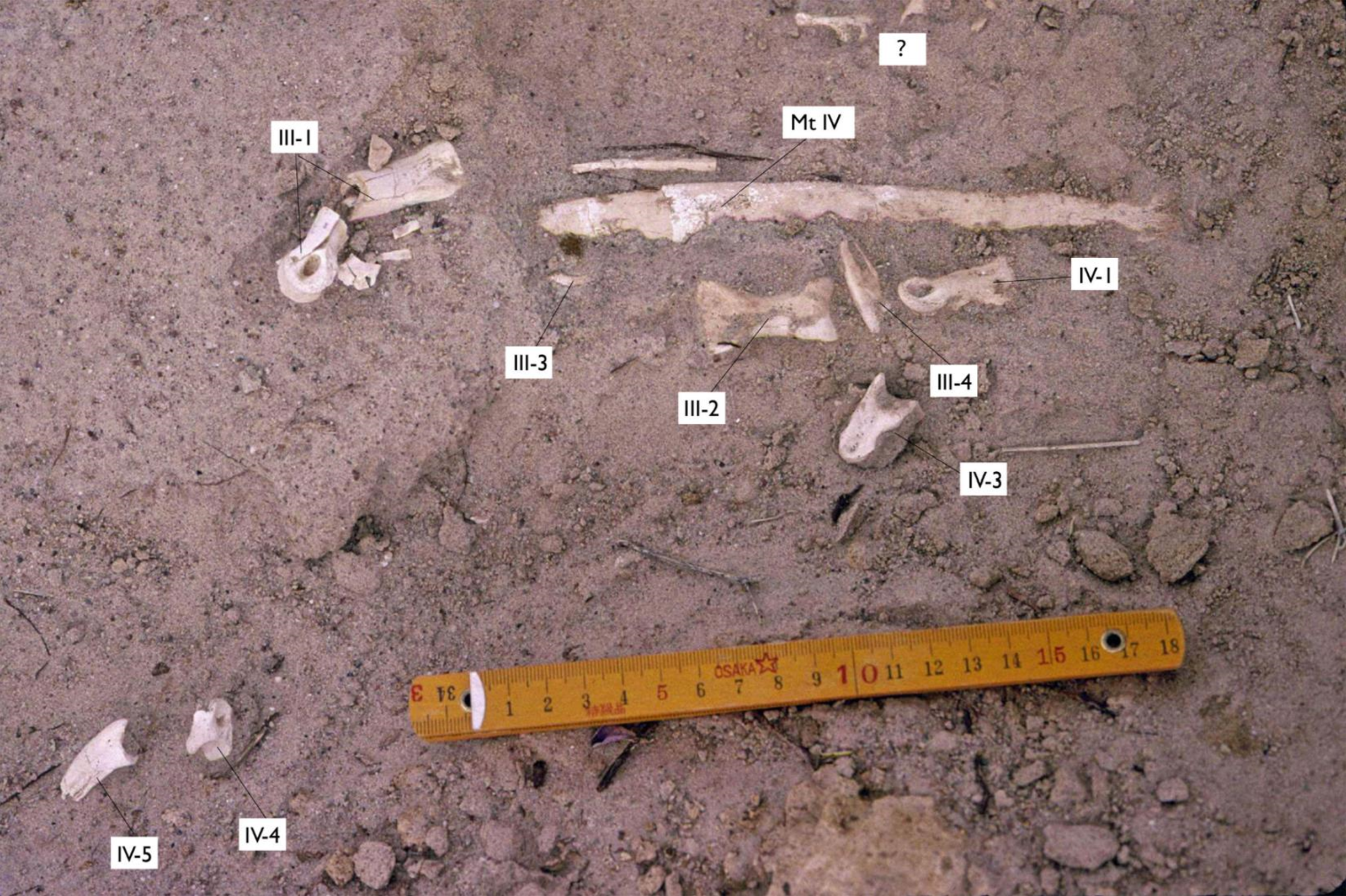 Field view of Aepyornithomimus tugrikinensis. Abbreviations: (Mt IV), the fourth metatarsal, (III-1 to III-4 and IV-1, IV-3 to IV-5), phalanges of the third and the fourth digits, and (?), unrecognized parts of the specimen.